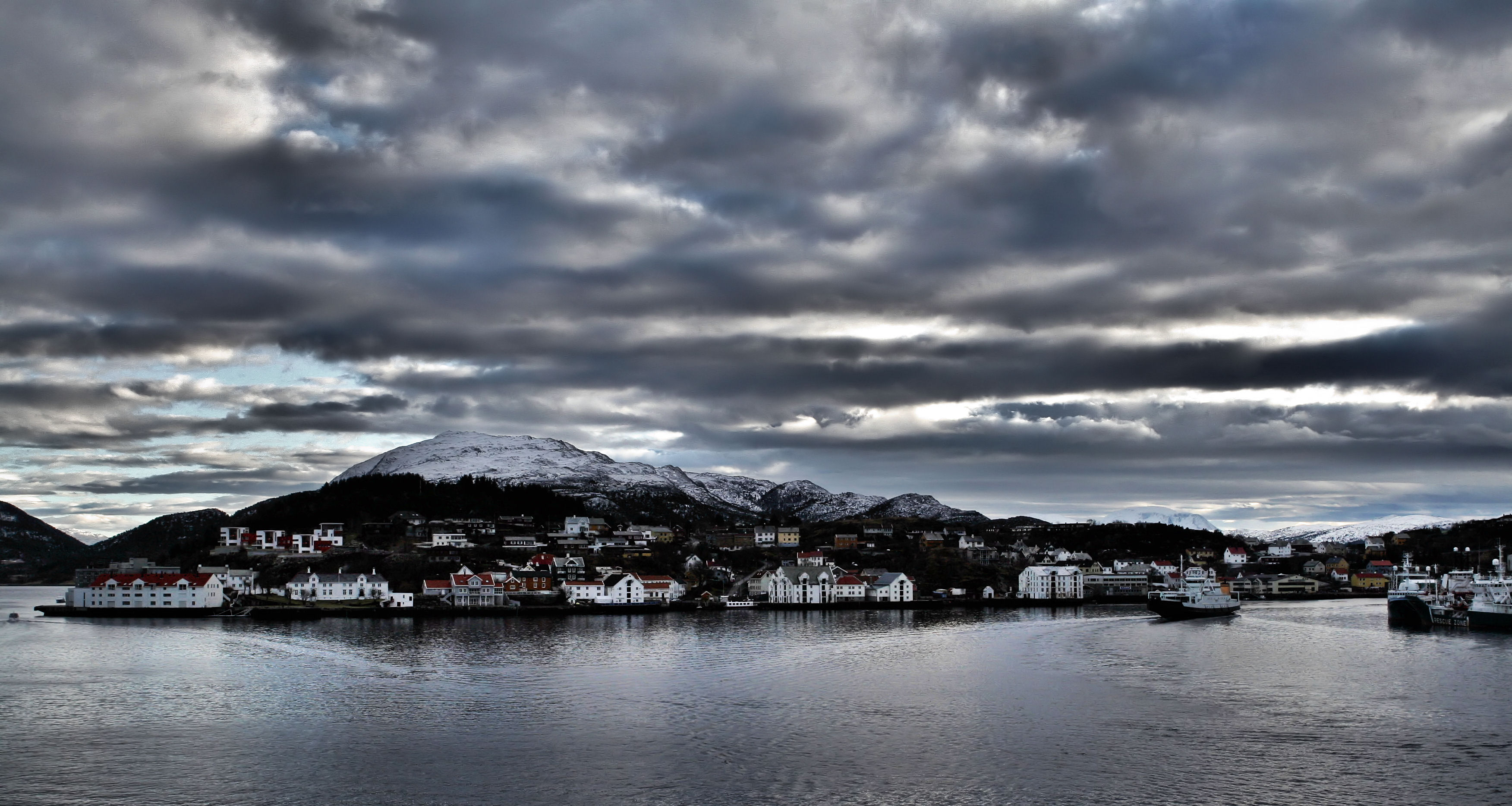 Innlandet, one of the three islands of Kristiansund. Winter 2006-2007.